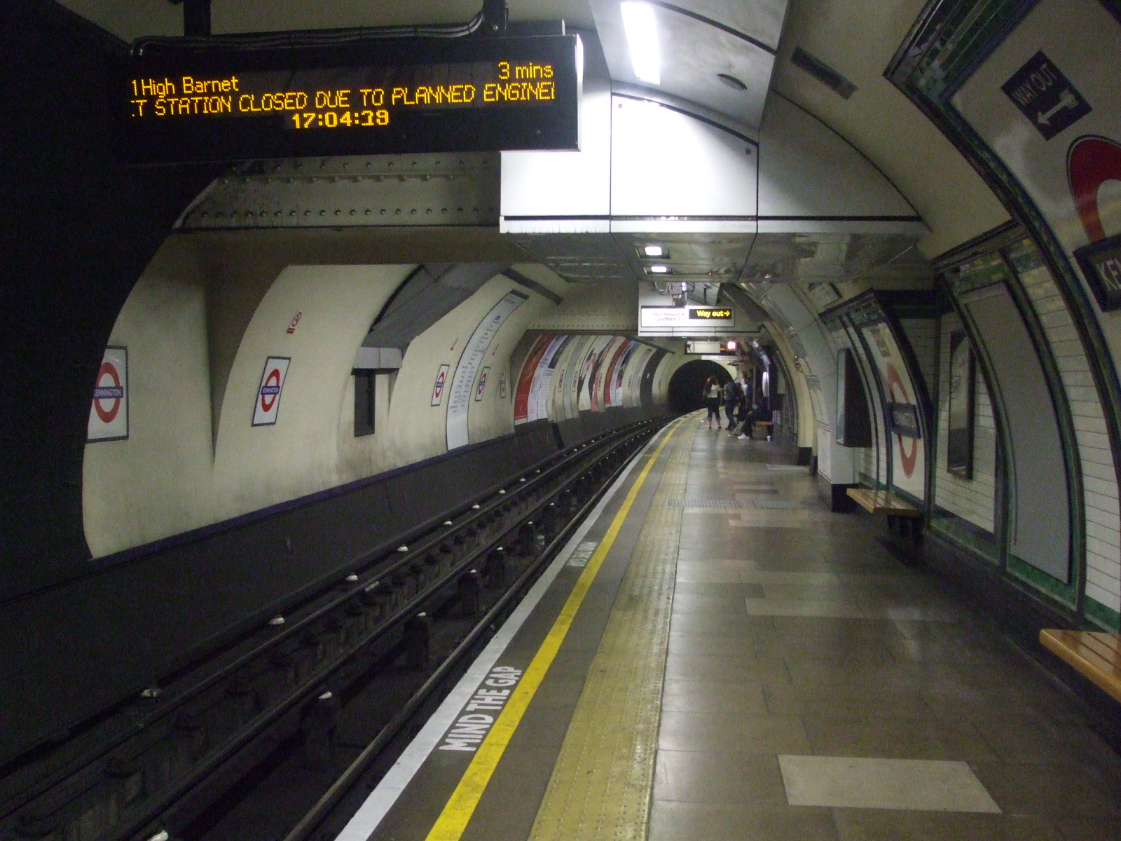 Kennington tube station northbound Bank branch platform looking south